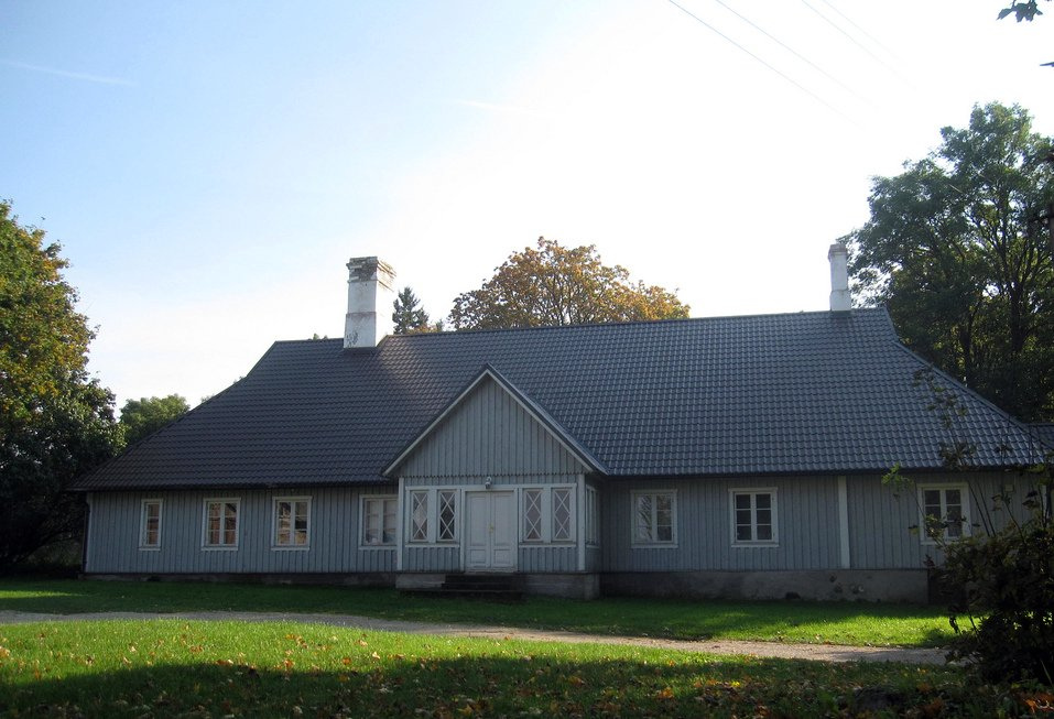 Noarootsi vicarage Estonia.